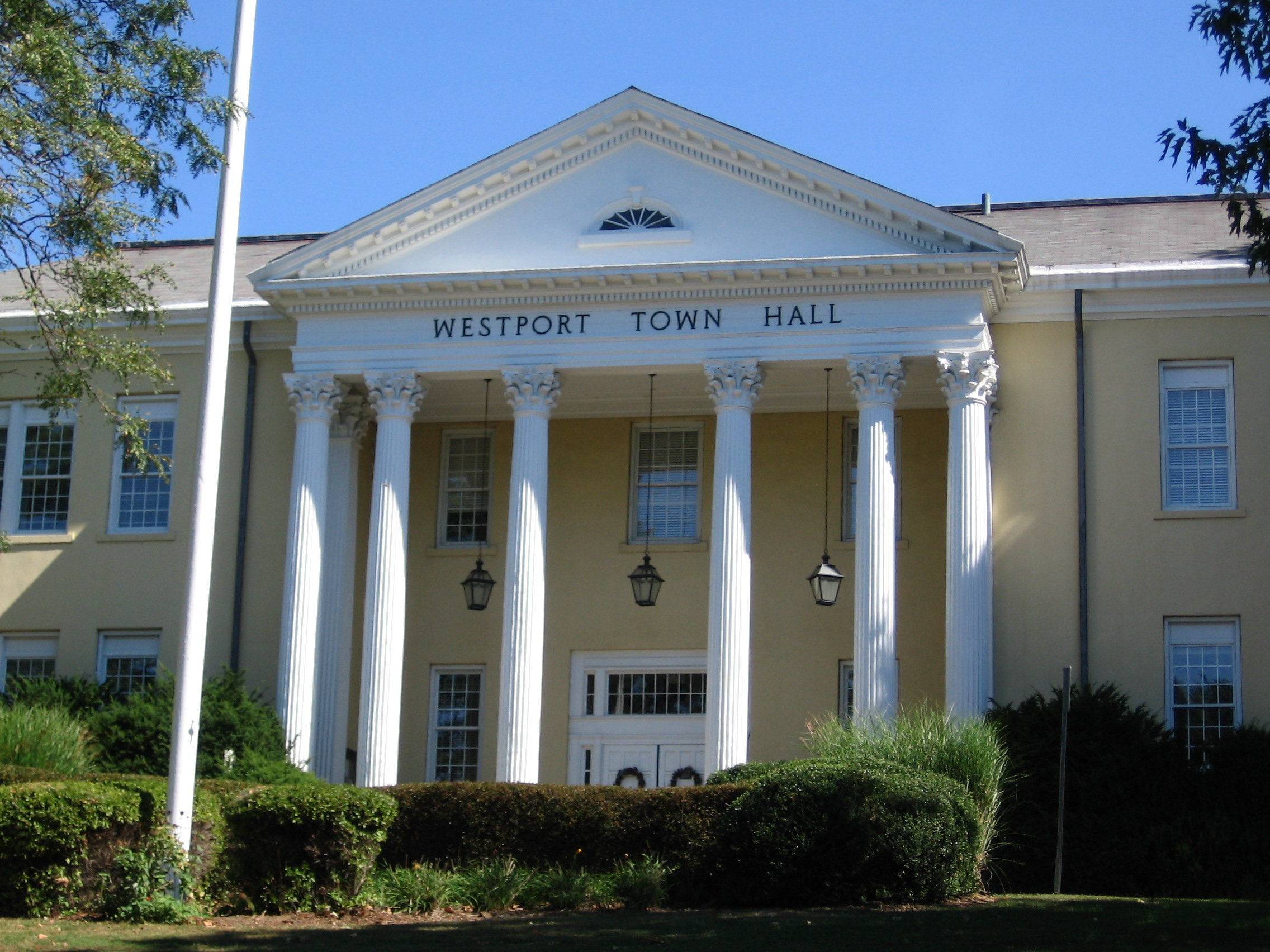 Westport, Connecticut Town Hall, Myrtle Avenue